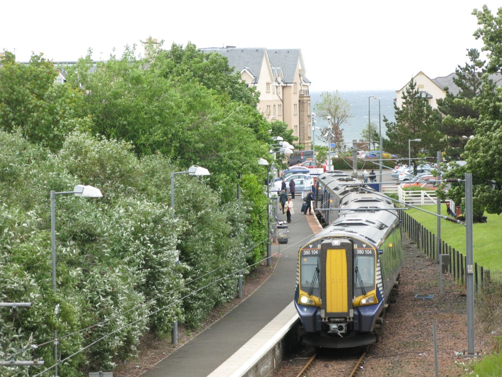 380104 stands at North berwick station before returning to Edinburgh Waverley.